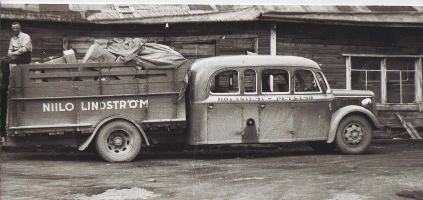 Bus-truck combination vehicle that was used on the route Rovaniemi-Petsamo and owned by Niilo Lindstrom's company. Bus-truck combination vehicles were commonly used in Finland 1920s-1940s. They offered a short (e.g. 3 metre) platform and a cabin for 10-15 passangers. They were operated by commercial firms, dairies, large farms, as well as traffic contractors